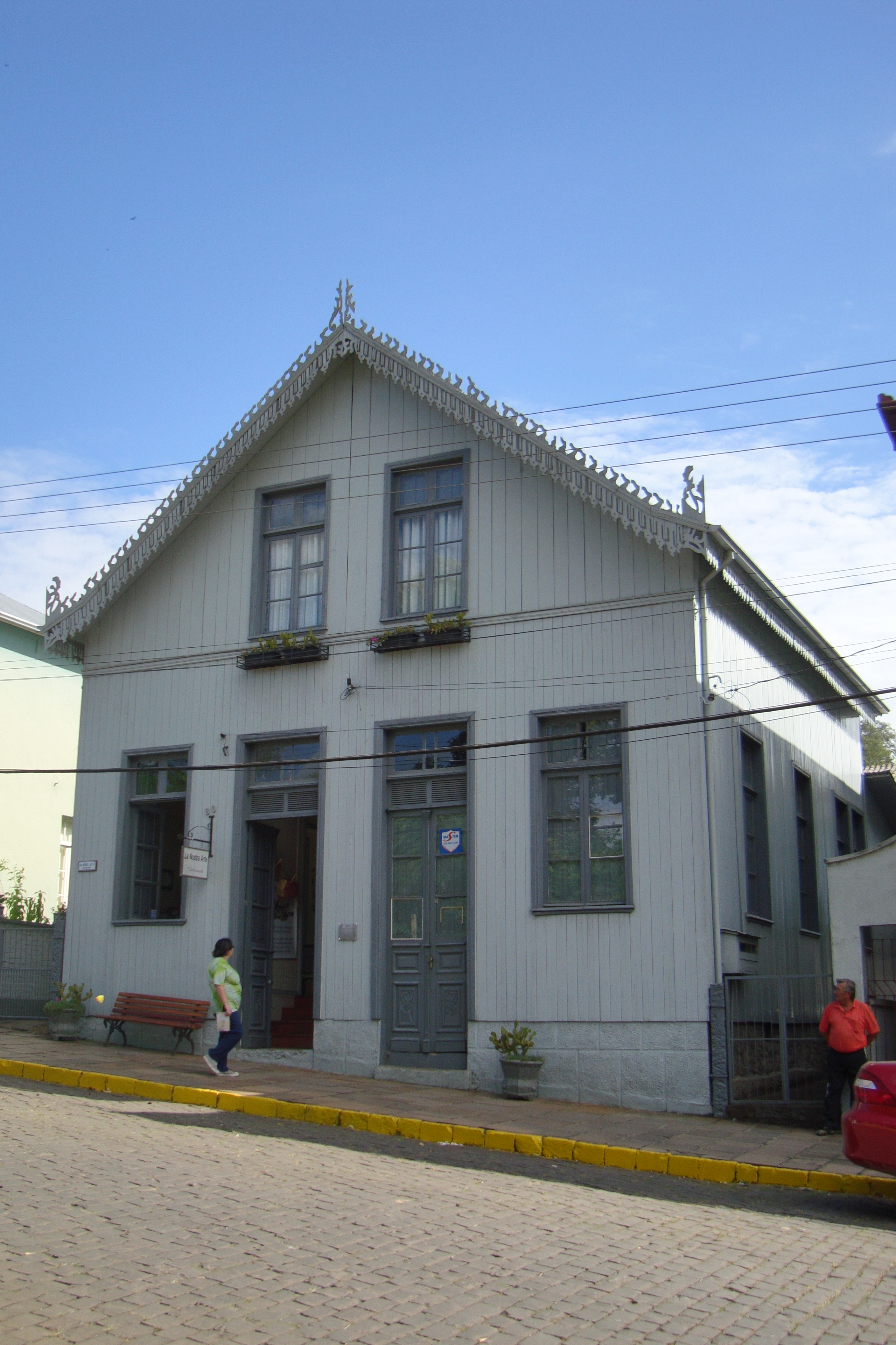 House Luciano Zanella at Antônio Prado, Rio Grande do Sul, Brasil